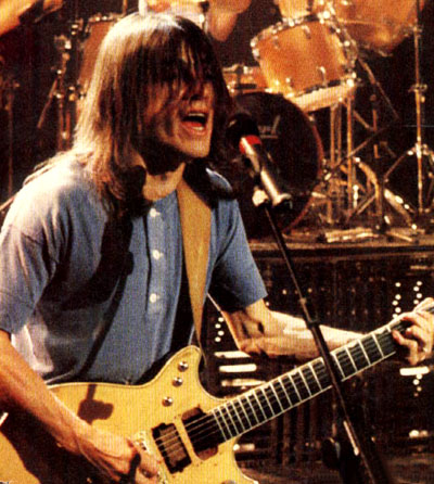 Malcolm Young, shot during AC/DC's Monster's Of Rock Tour.